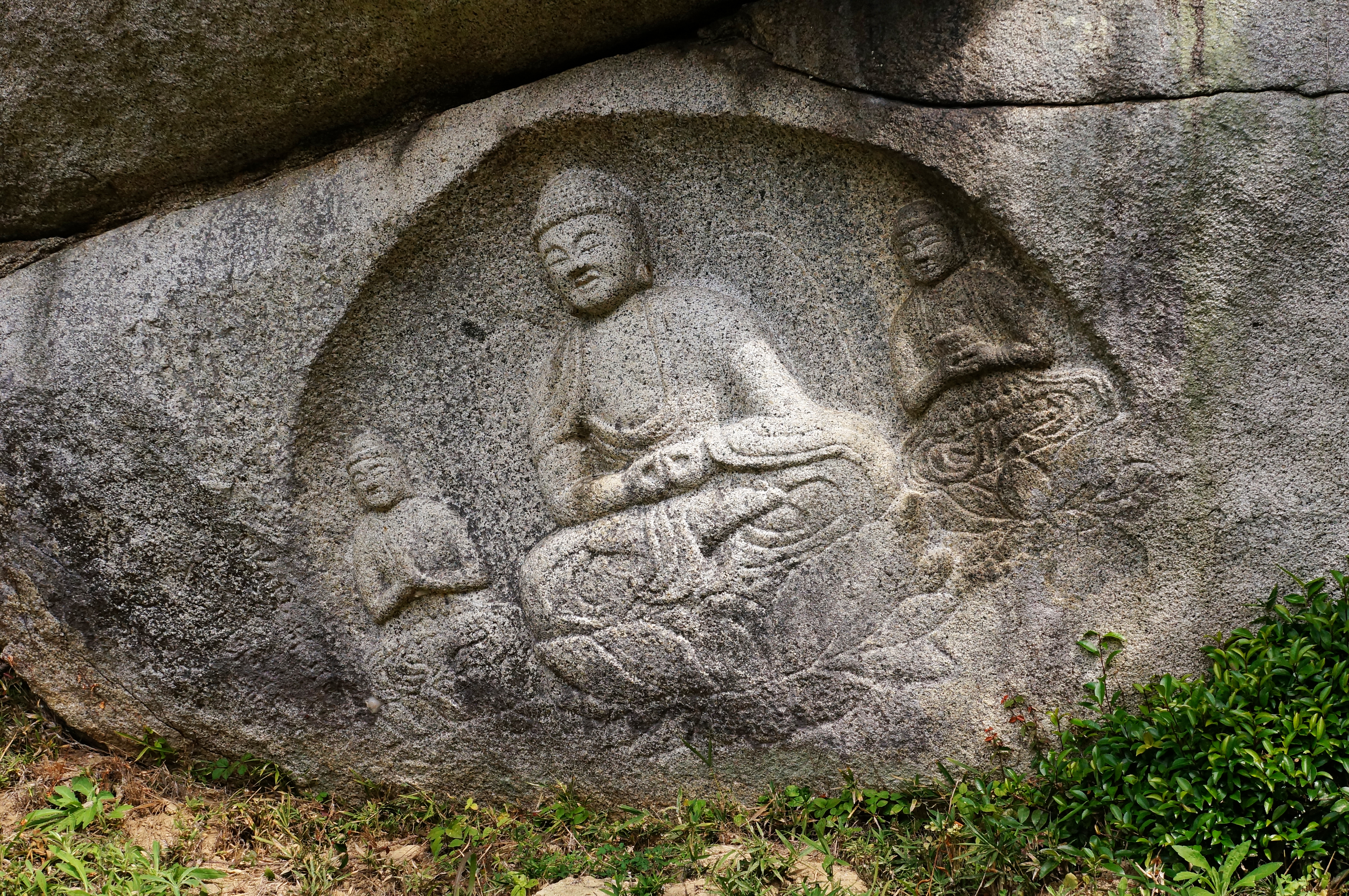 Tono, Kizugawa, Kyoto prefecture, Japan.